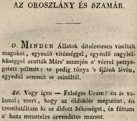 Animal fable of Décsei János